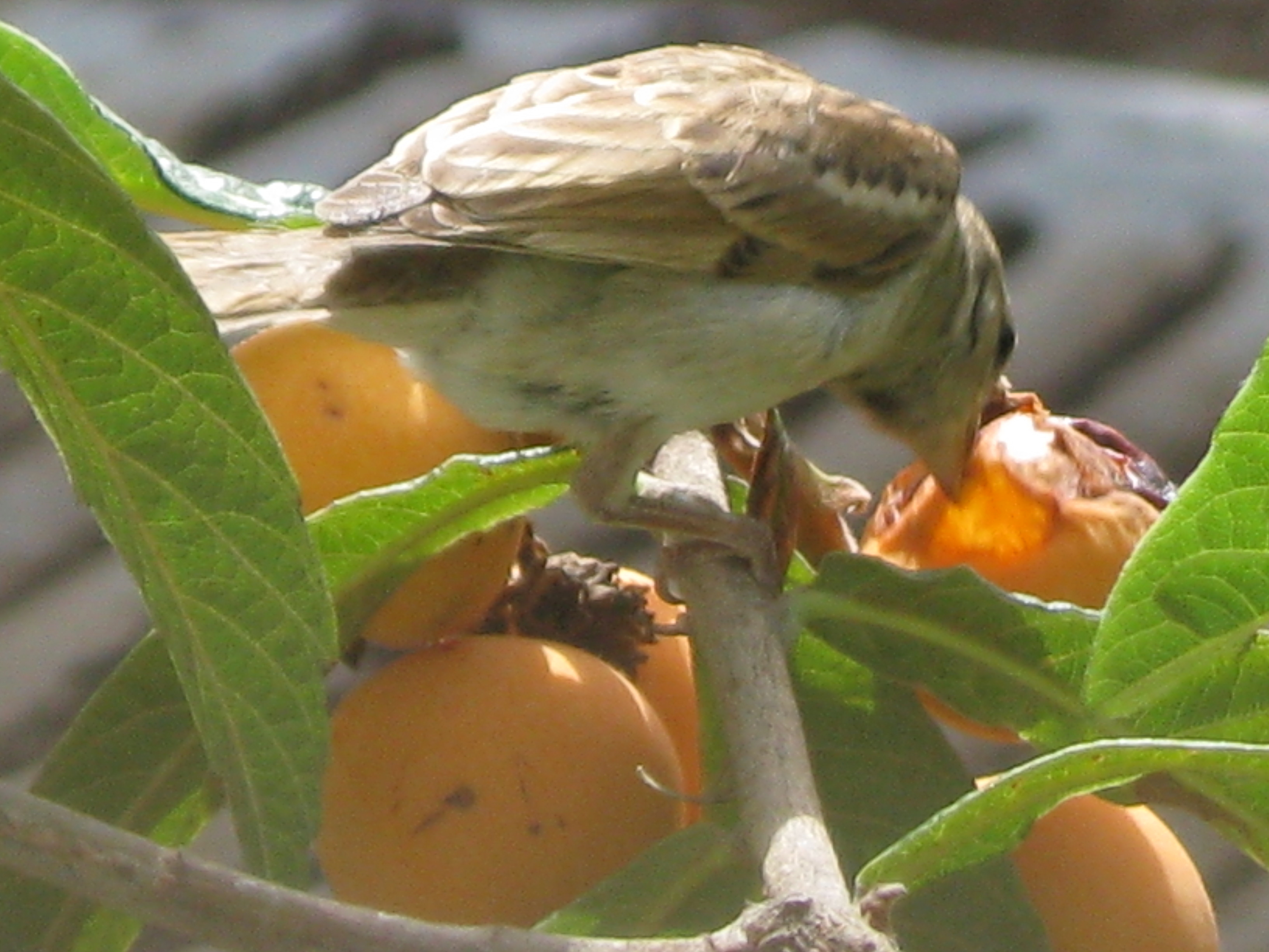 Passer domesticus (female) eating Eriobotrya japonica fruits at Jerusalem.